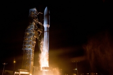 The NROL-39 GEMSat mission lifted off from California's Vandenberg Air Force Base on Dec. 5, 2013, aboard a United Launch Alliance Atlas V rocket.